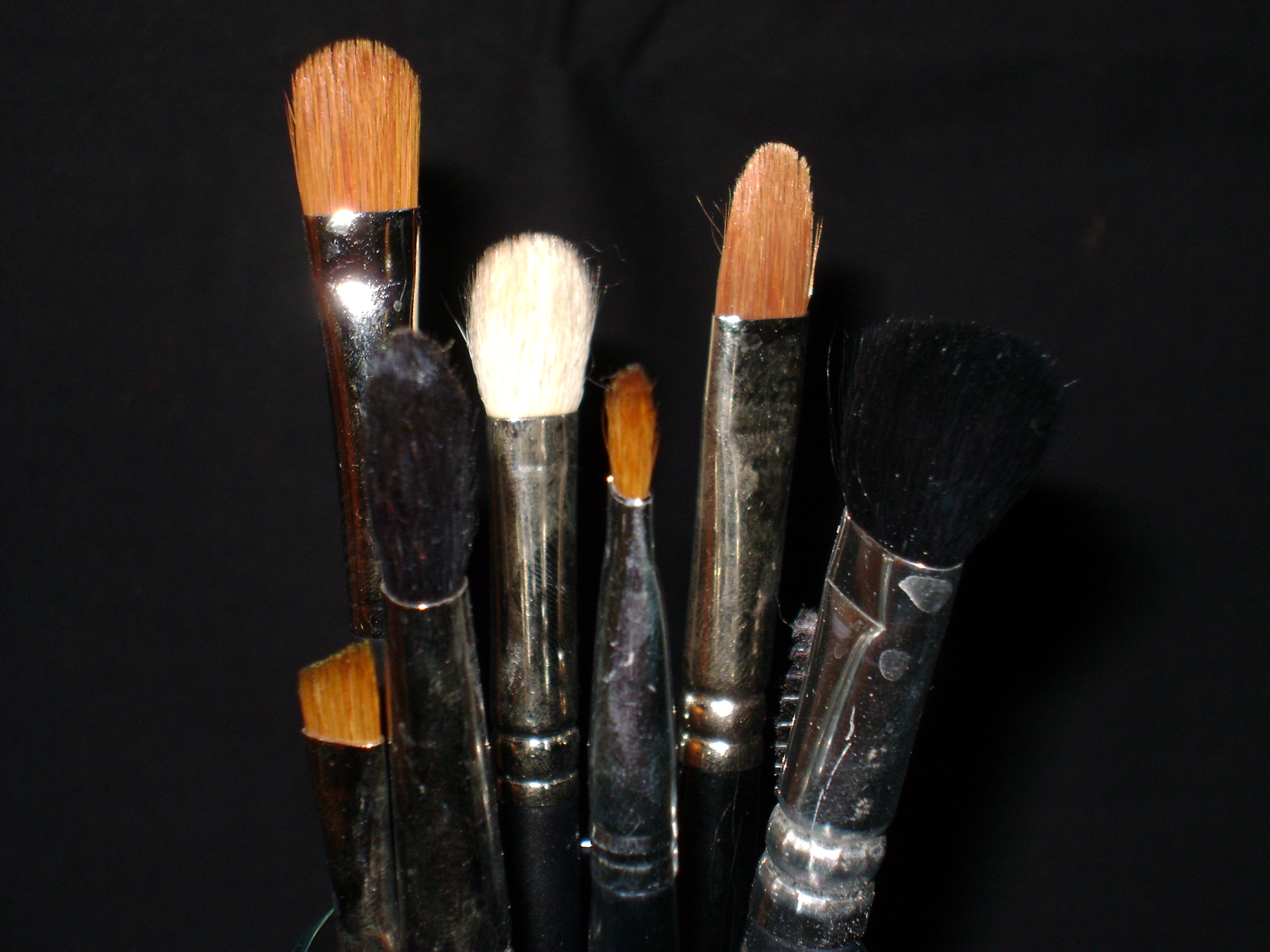 Makeup brushes - Please kindly share a link for this photo the first on-line makeup encyclopedia in Greek.